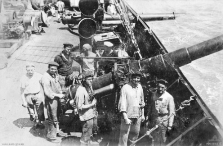 From AWM caption : A group of unidentified sailors surround a 15cm (5.9 inch) gun on the deck of the German armed merchant raider, SMS Wolf. The gun was hidden under sheets of canvas when not in use and the railing could be lowered on hinges allowing the gun barrel to protrude from the ship. When the guns were not in use, the raider could be easily disguised as a merchant ship. This image is from a collection relating to the voyage of the German raider, SMS Wolf (II), and was taken by an unidentified crew member.